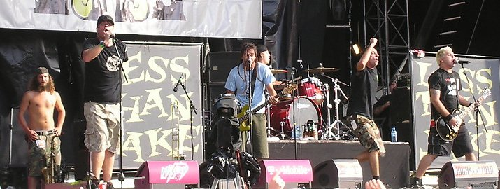 Less Than Jake live at Highfield 2006